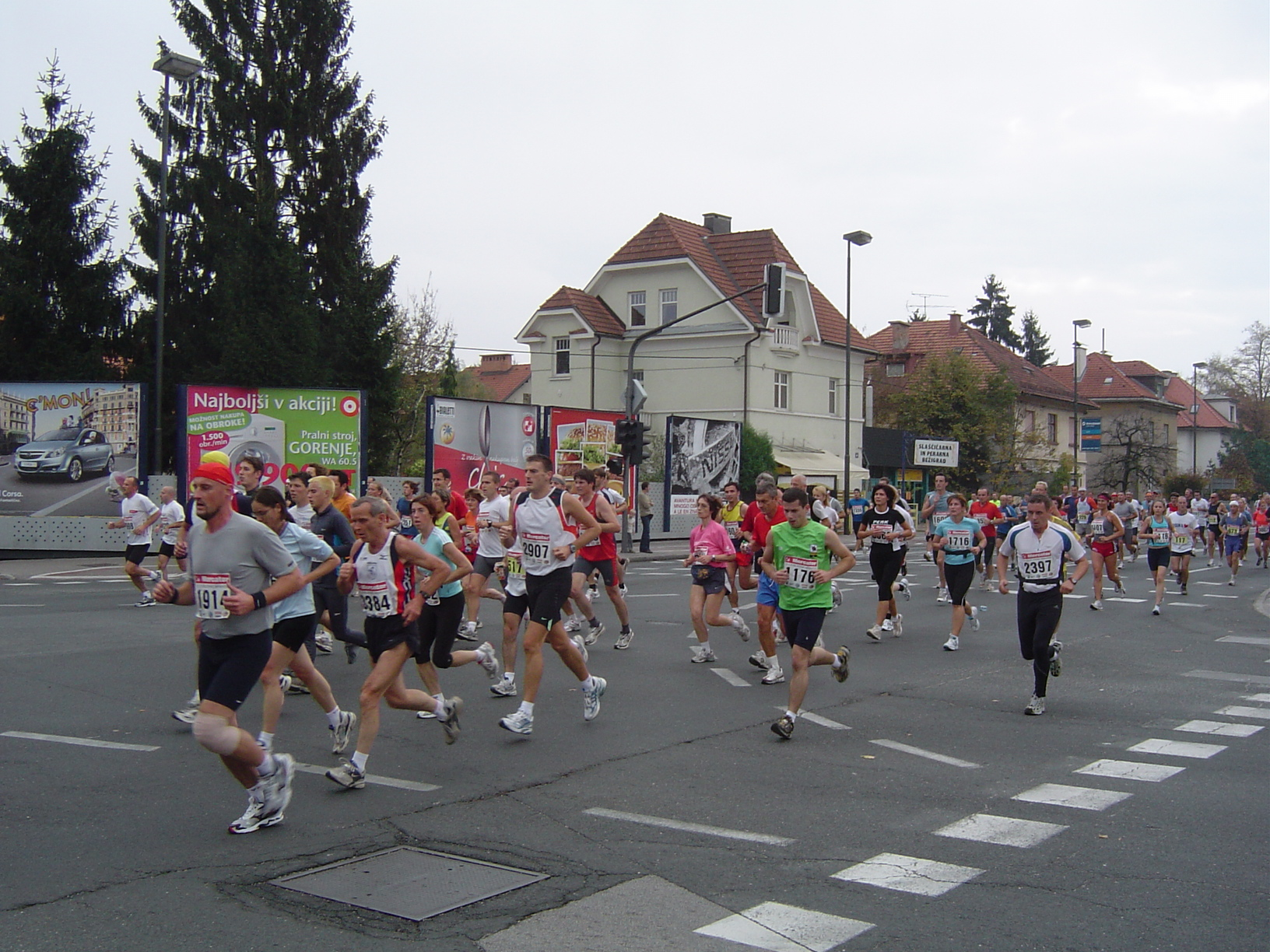 11th marathon in Ljubljana, my work.